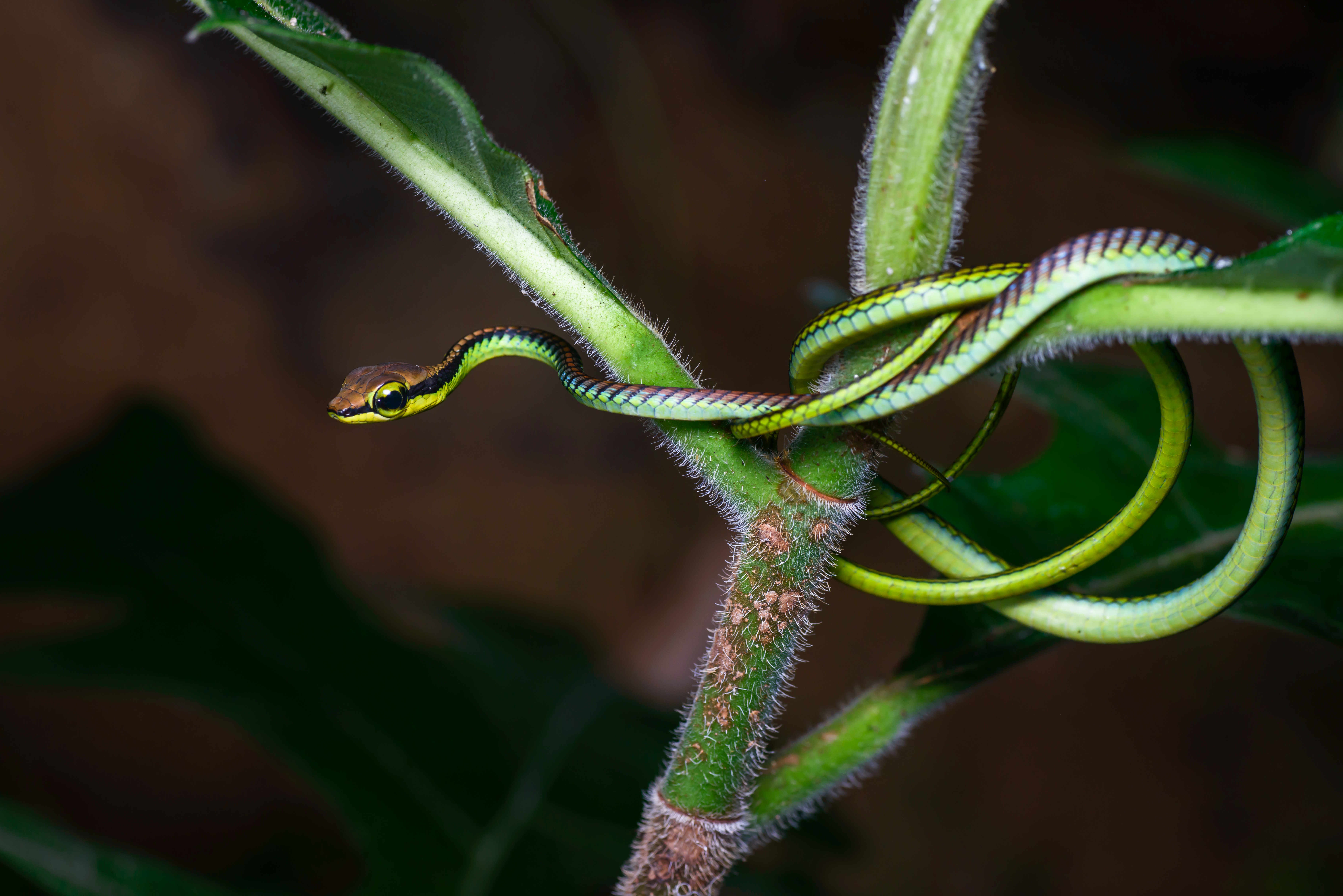 Dendrelaphis formosus, Elegant bronzeback - Khao Sok National Park. Photo by Thai National Parks